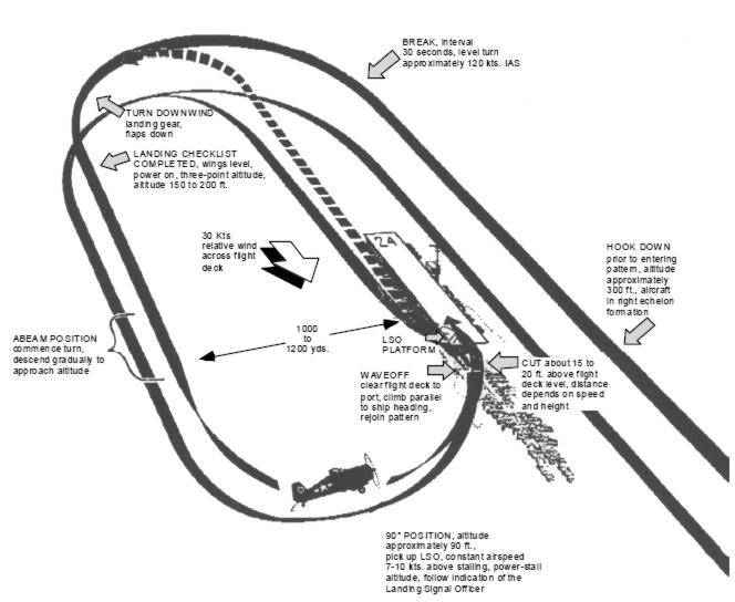 Diagram showing the landing pattern of U.S. Navy aircraft carriers during the Second World War. The aircraft carrier depicted is the Independence-class light carrier USS Belleau Wood (CVL-24).